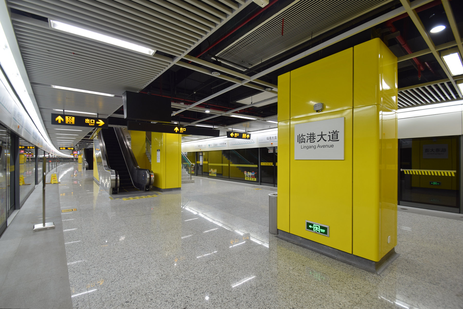 Line 16 Platform of Lingang Avenue Station, Shanghai Metro